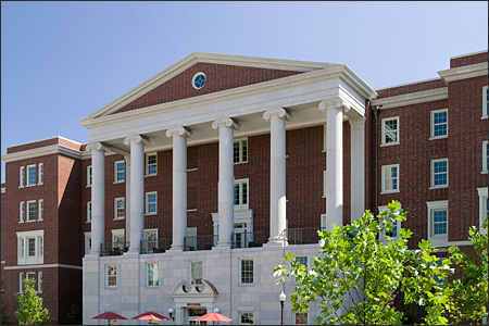 Stambaugh House, part of The Commons at Vanderbilt University